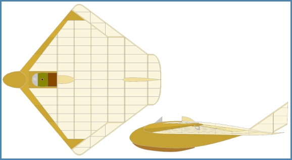 Canova PC500 glider